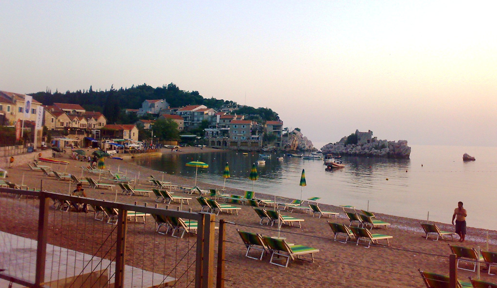 Image from southern Montenegro. Area in the bay of Budva.